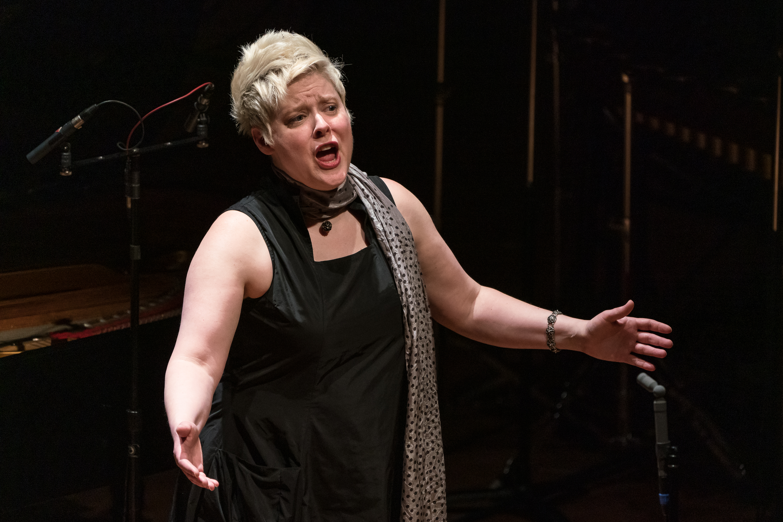 April 14, 2019 Alice Tully Hall Lincoln Center New York, NY Photo by Steven Pisano Tony Arnold